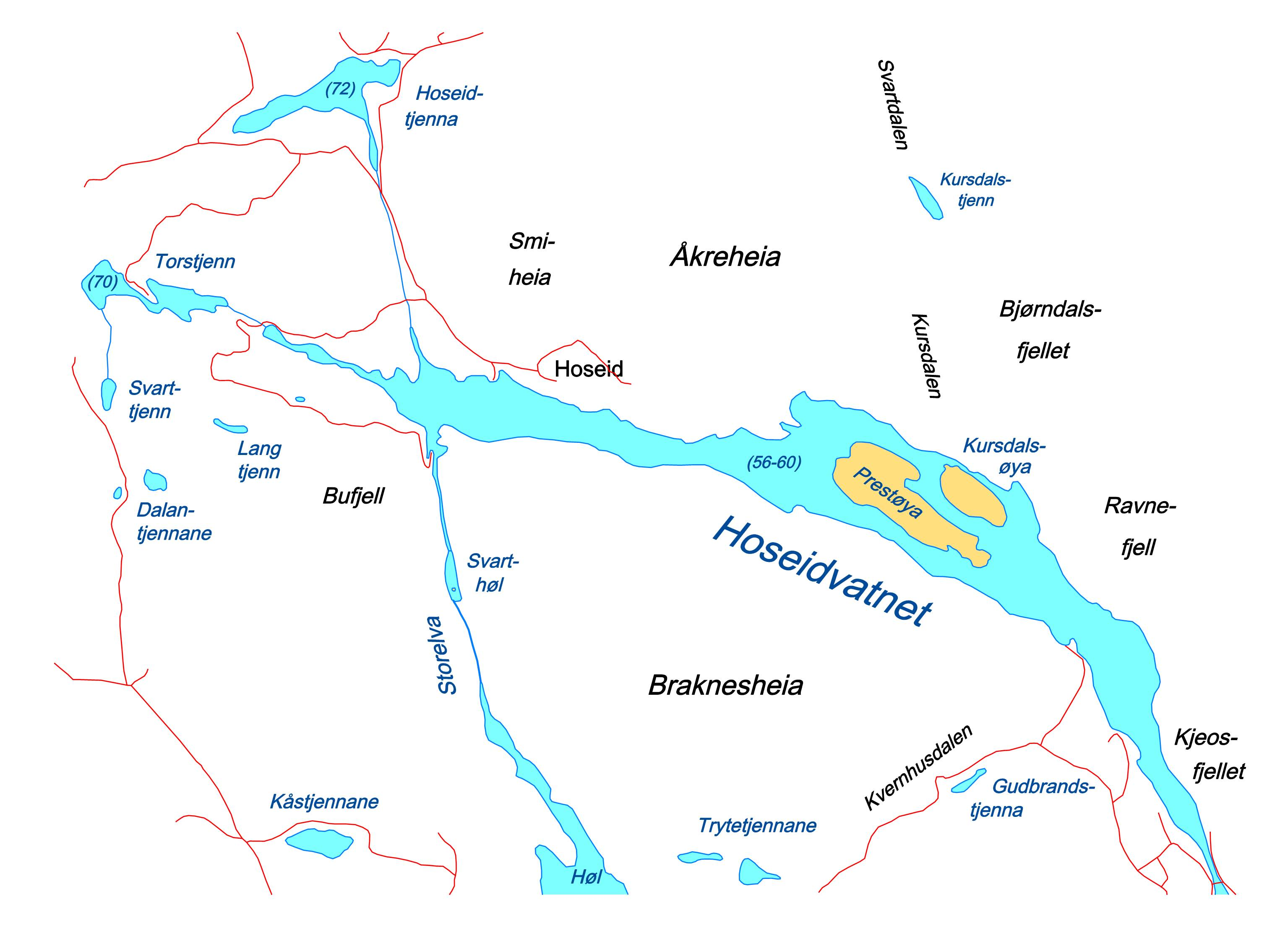 The lake Hoseidvatnet, Drangedal, Telemark, Norway